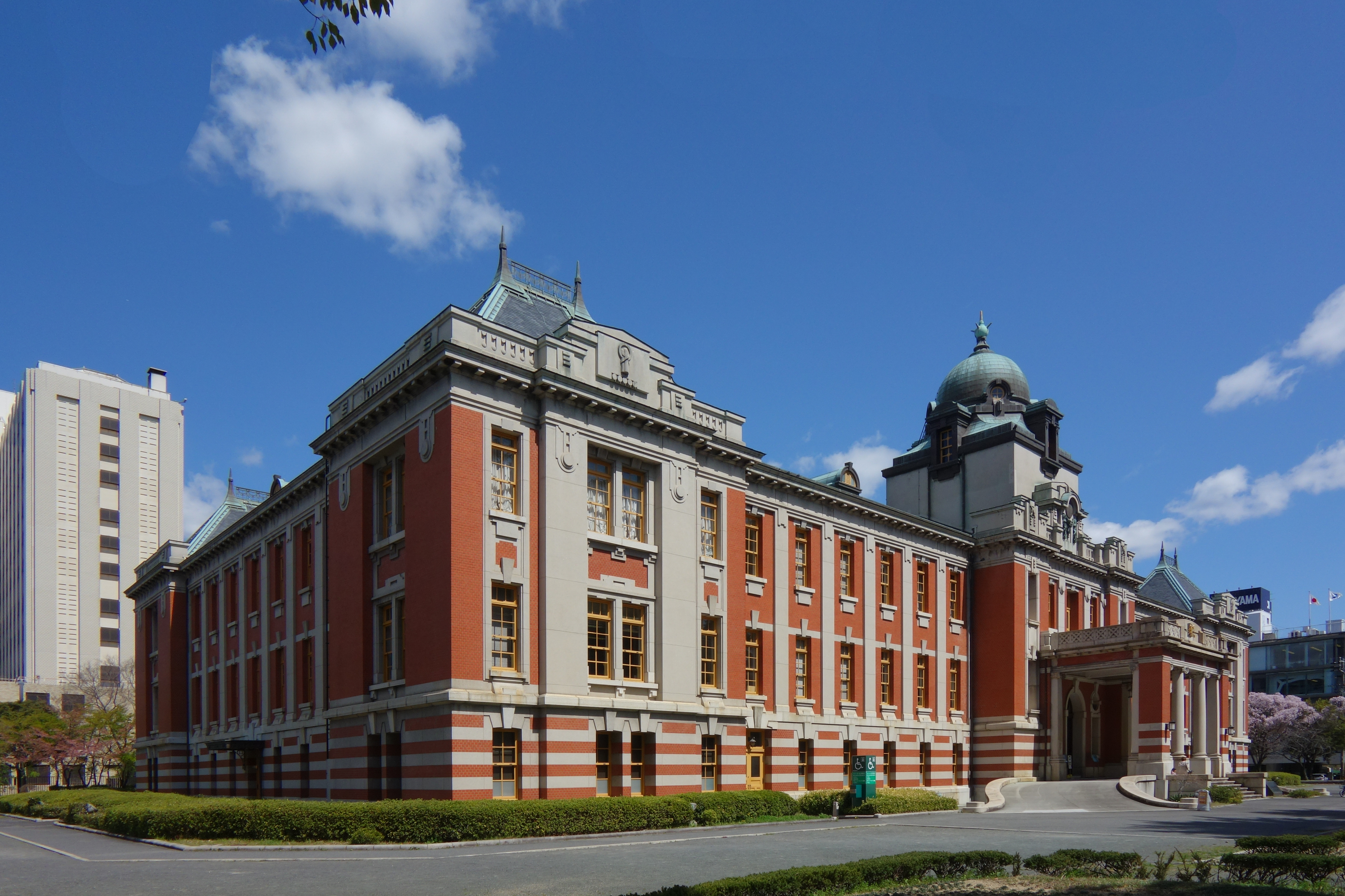 Nagoya Municipal Museum. March 25, 2016.